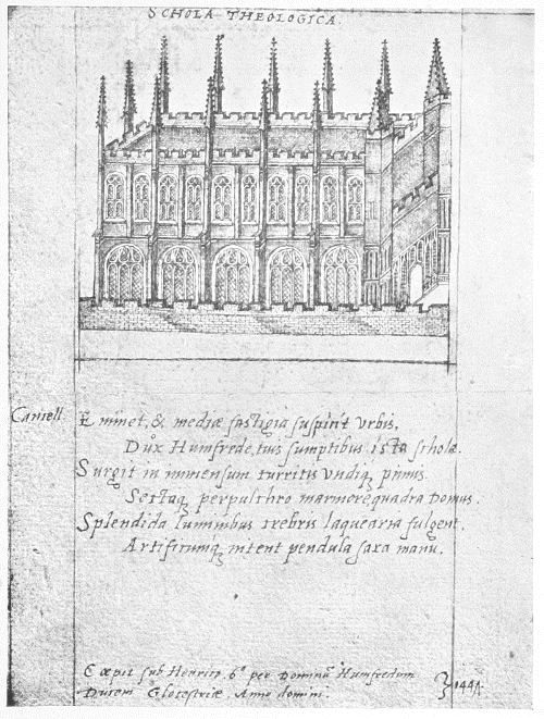 See title, was drawn by John Bereblock and given to Queen Elizabeth I when she first visited Oxford.